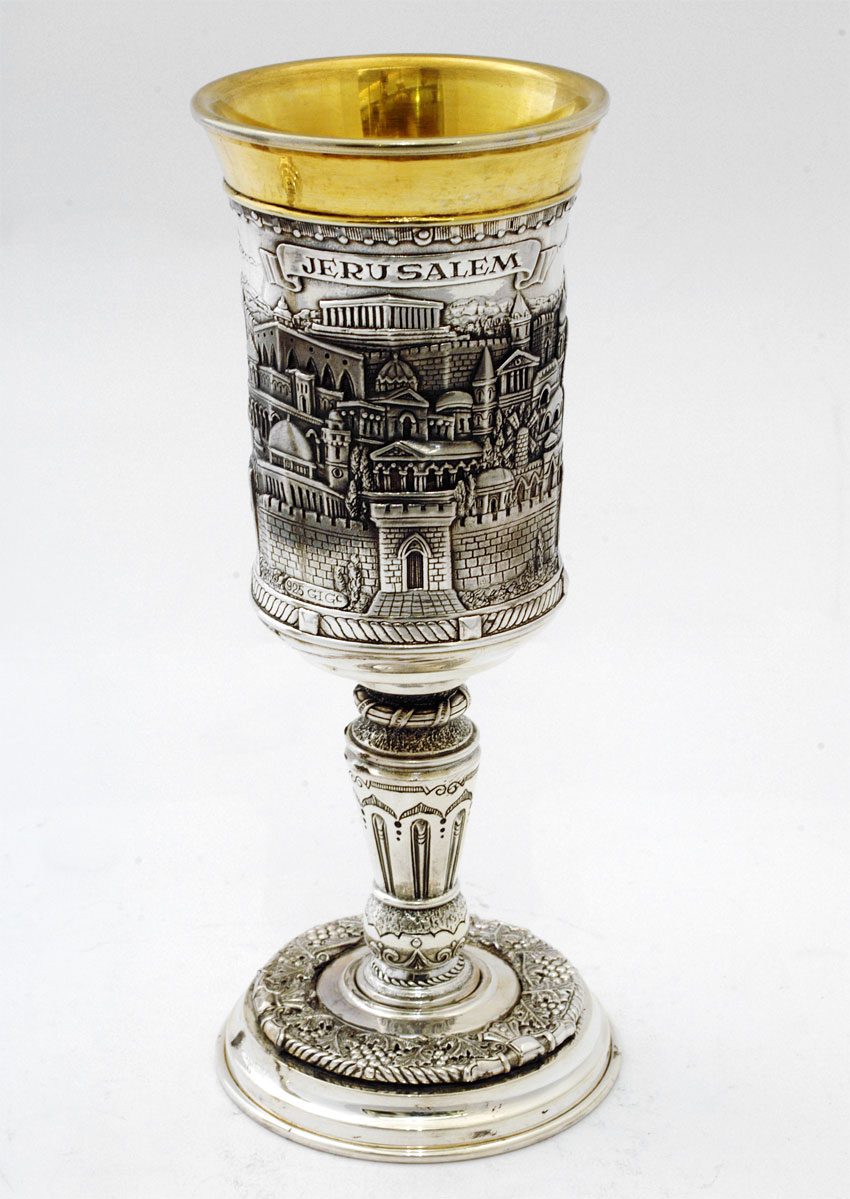 This is a photo of Kiddush Cup - Jerusalem, hand carved In Israel. This kiddush cup made out of 925 sterling silver. You can view all my collection at:Silver Judaica